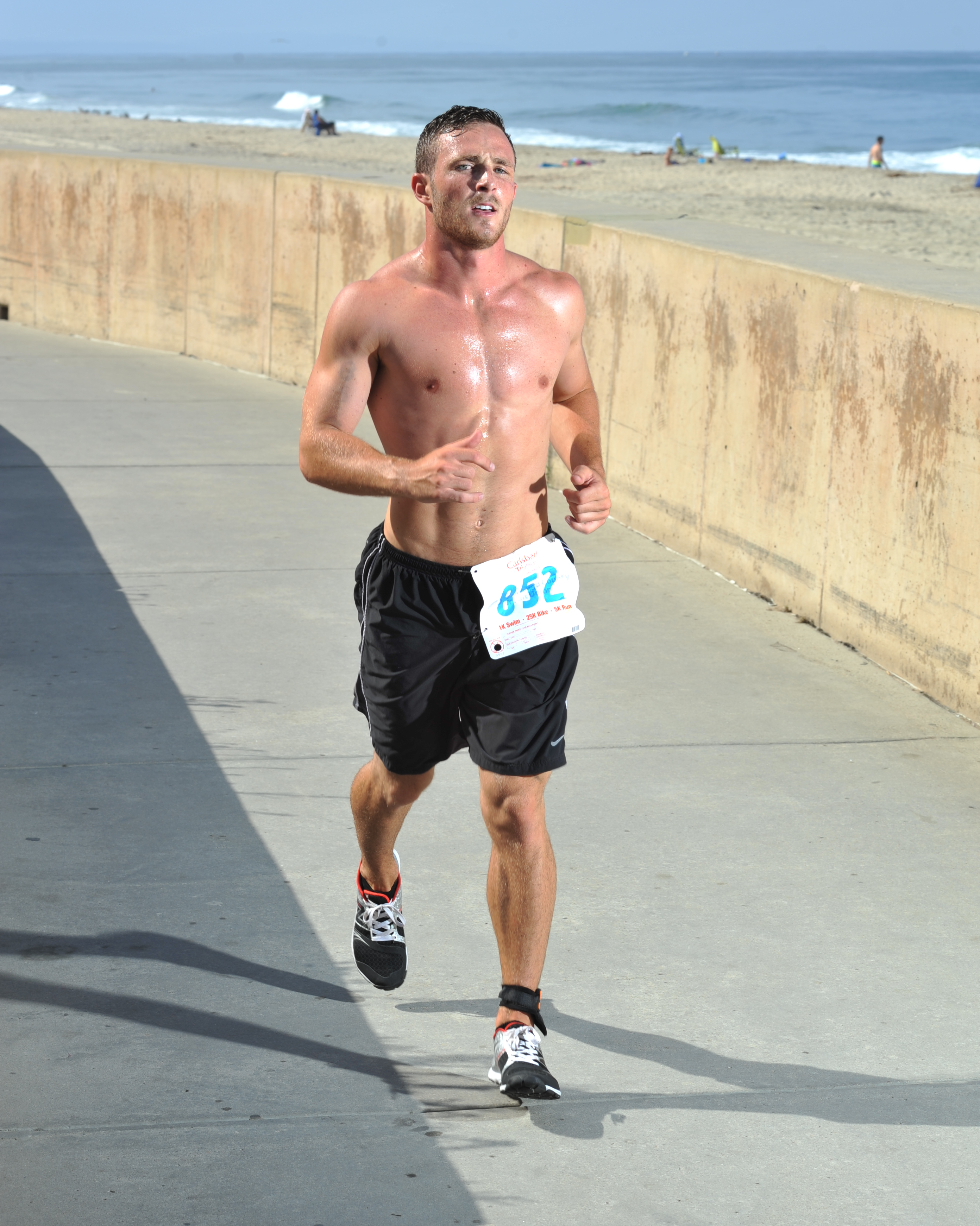 A sweaty runner.